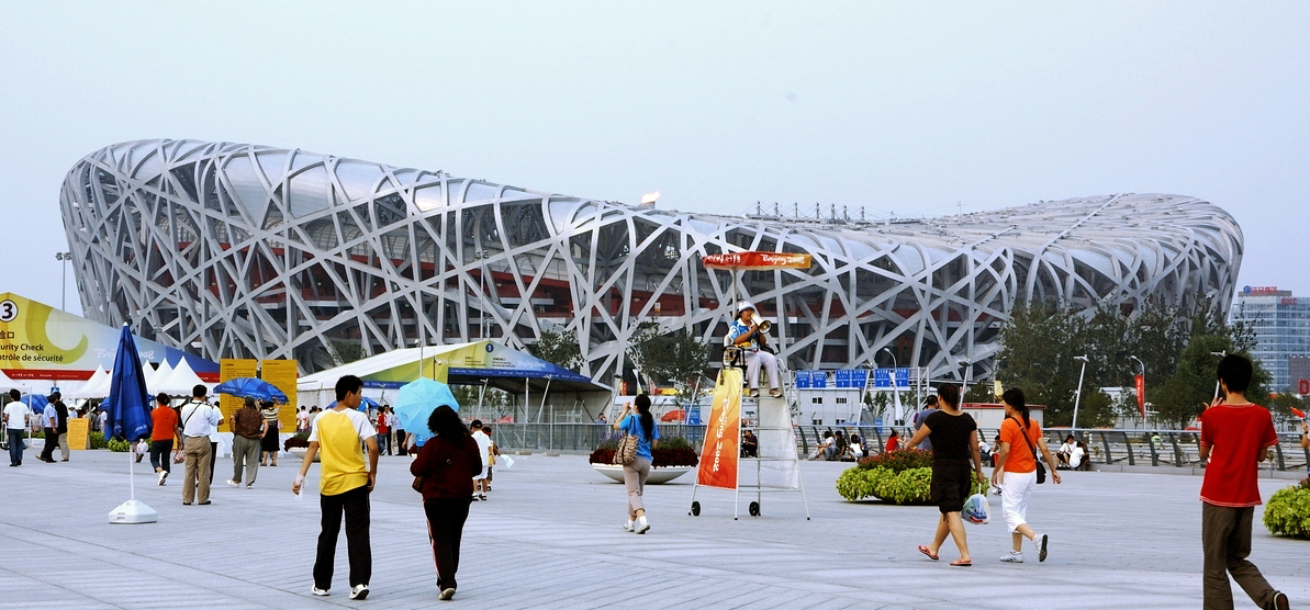 Beijing National Stadium during the 2008 Summer Paralympics